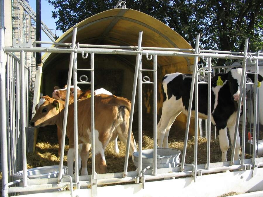 calves in igloo husbandry